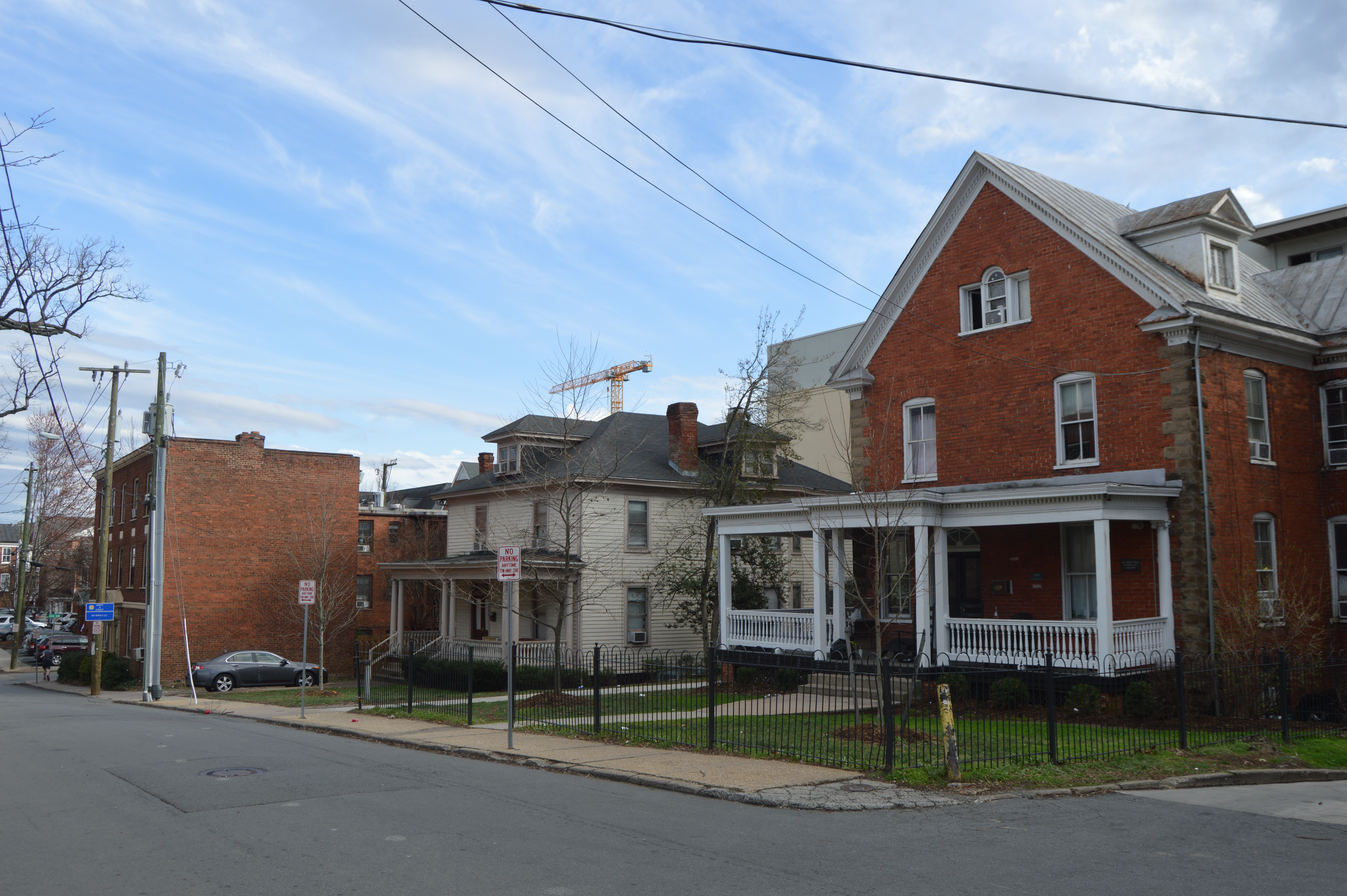 Houses on the southern side of Wertland Street between Thirteenth and Fourteenth Streets Northwest in Charlottesville, Virginia, United States. They are part of the Wertland Street Historic District, a historic district that is listed on the National Register of Historic Places.